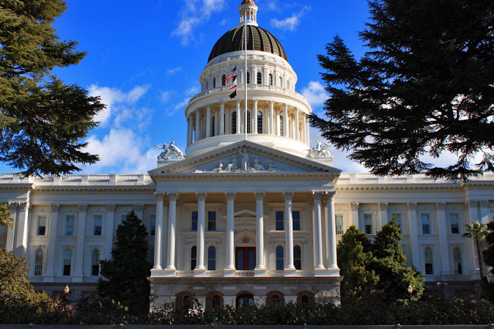 California State Capitol